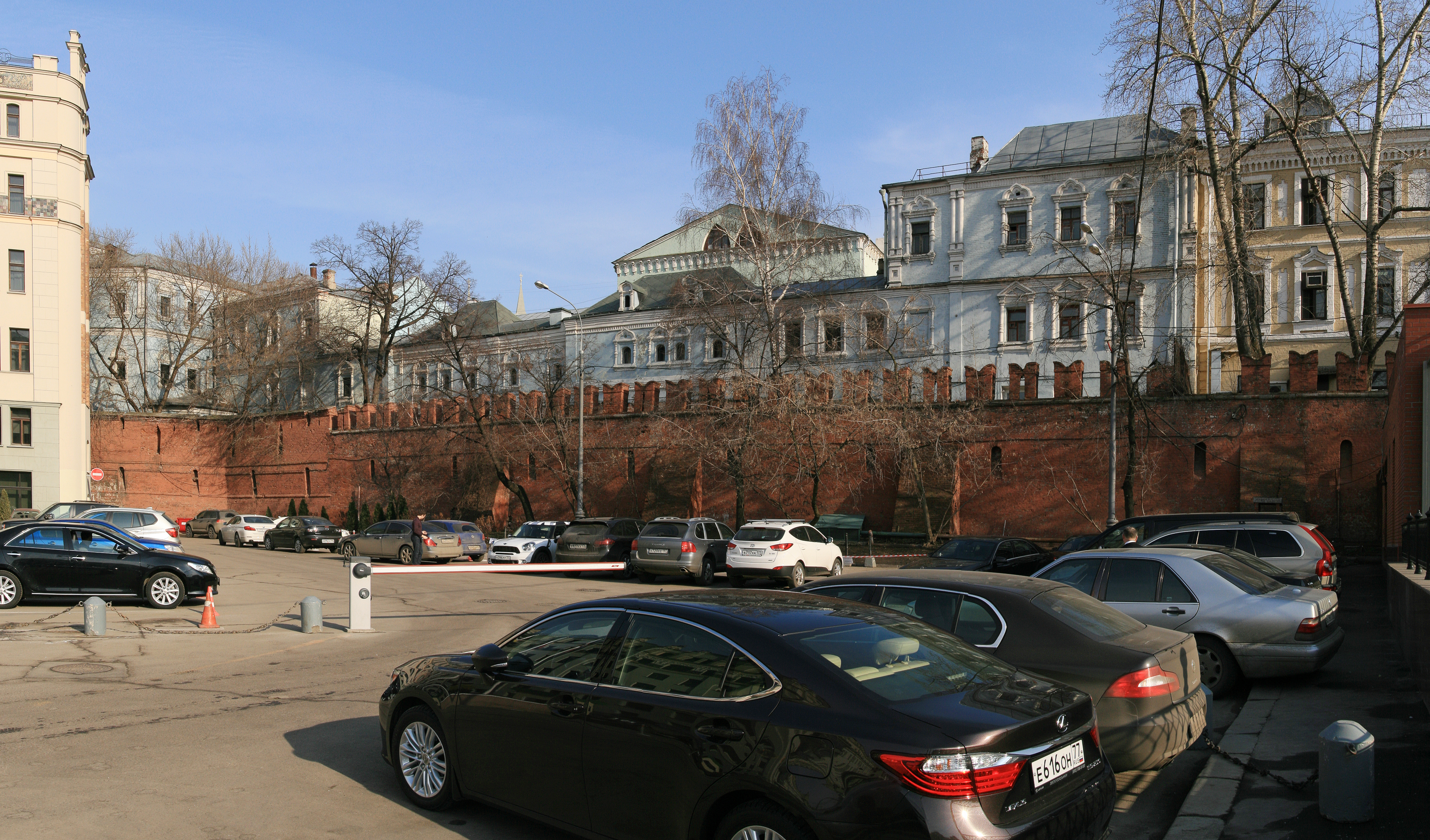 Kitay-gorod wall on Revolution Square in Moscow